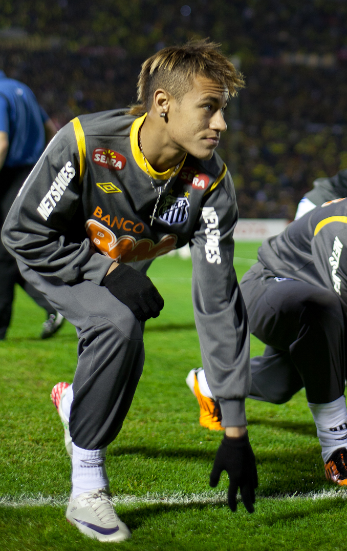 Neymar training before the start of the first leg of the 2011 Copa Libertadores final at the Centenario Stadium of Montevideo.